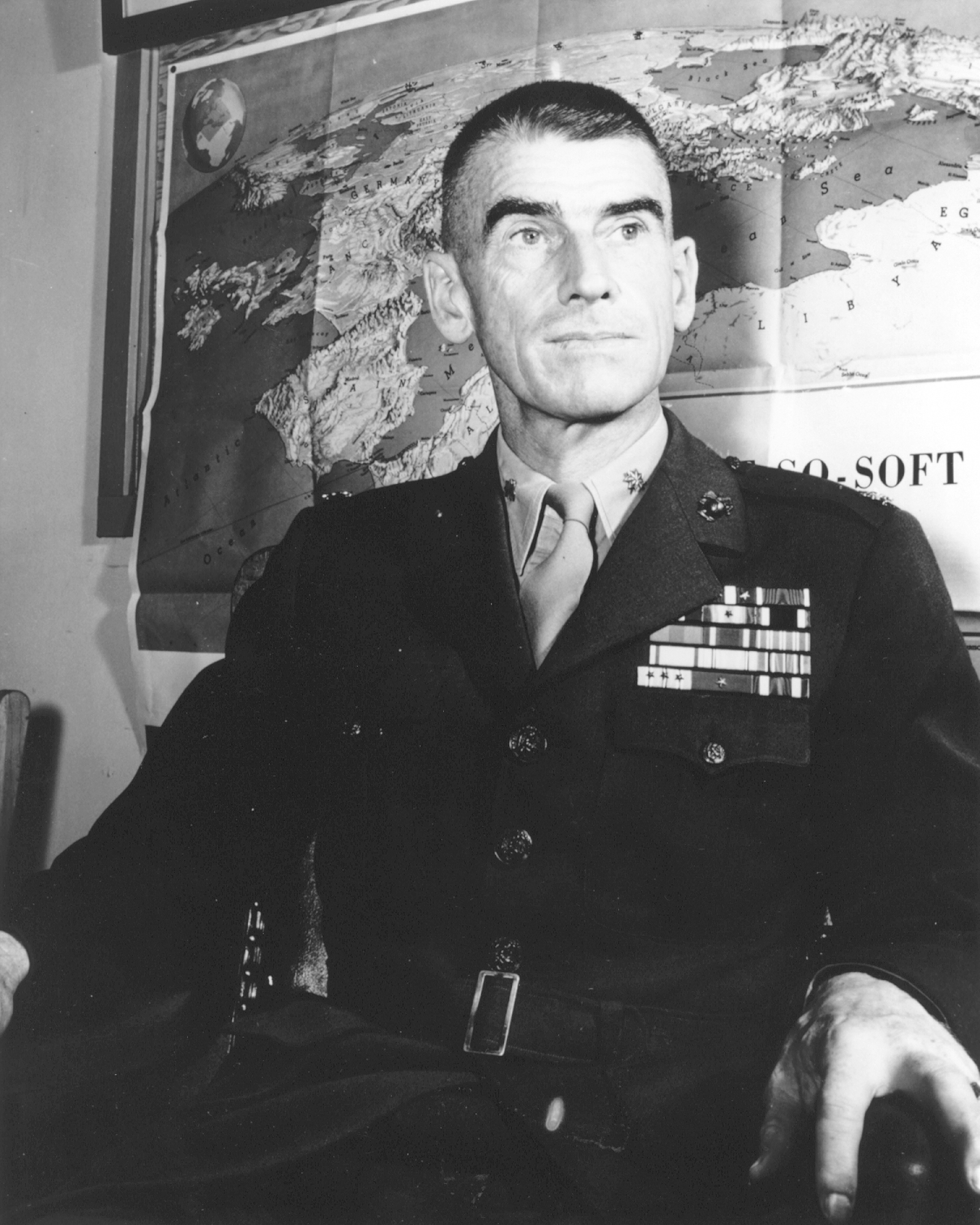 B.- Gen Evans F. Carlson (1896–1947), USMC, Carlson's Raiders; photo from official Marine Corps biography